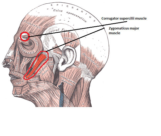 Small modifications depicting 2 muscles on the human face